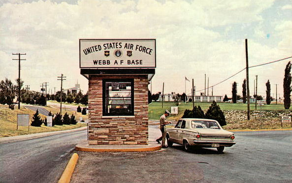 Postcard of Main Gate at Webb AFB, Texas